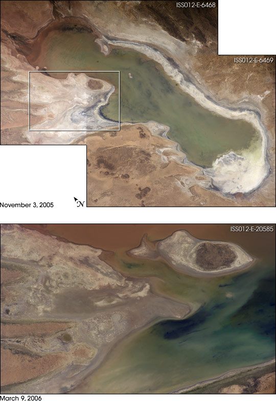 Changes in water levels of Lake Poopó, Bolivia. See source for more details.